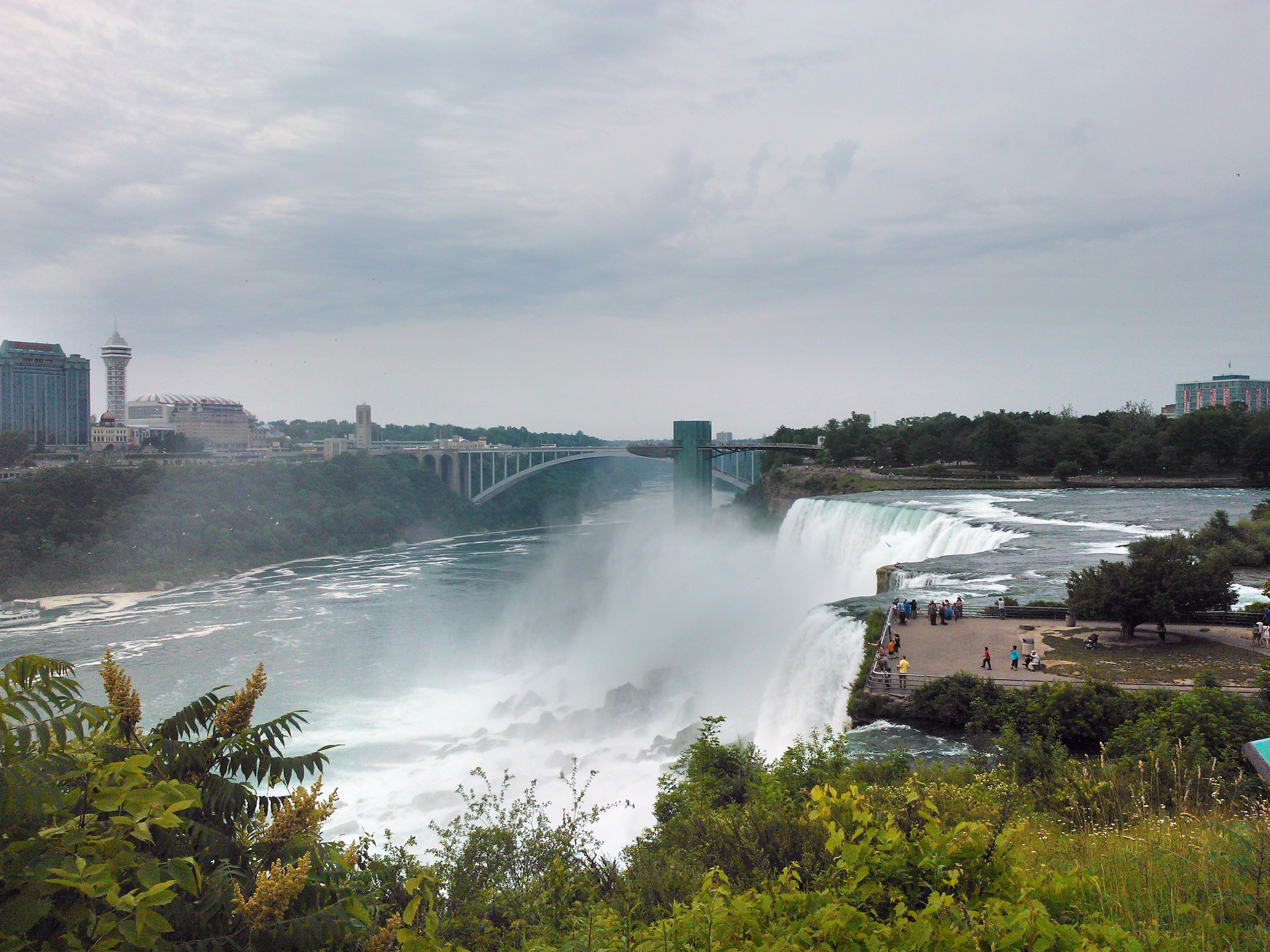 View as seen from Goat Island, New York, USA